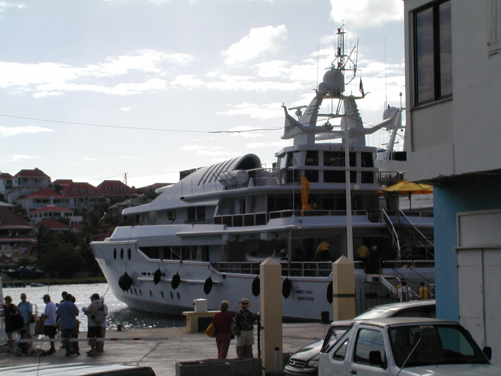 St. Barts, MY Southern Cross III